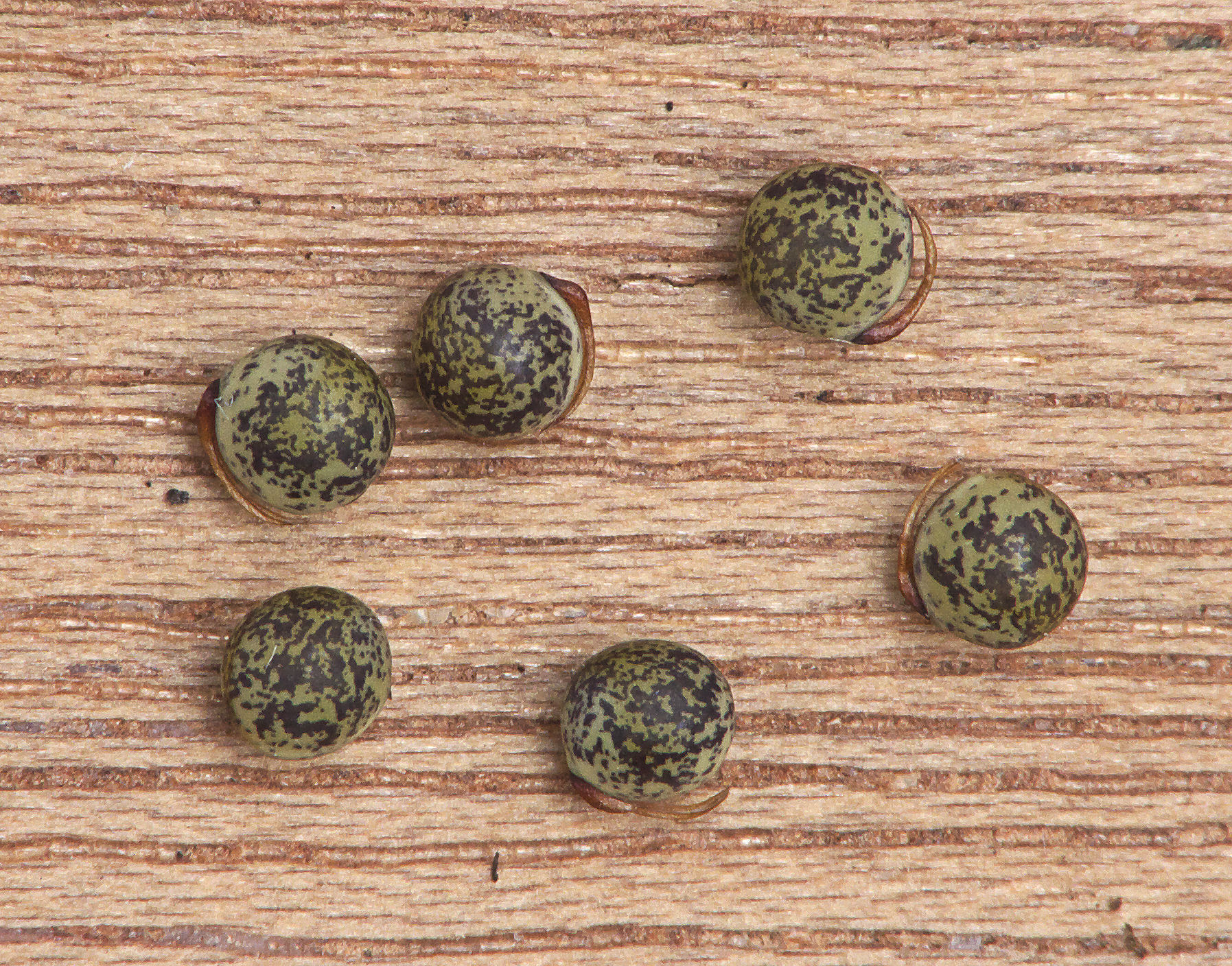 Vicia hirsuta seeds, 2.5 - 3 mm